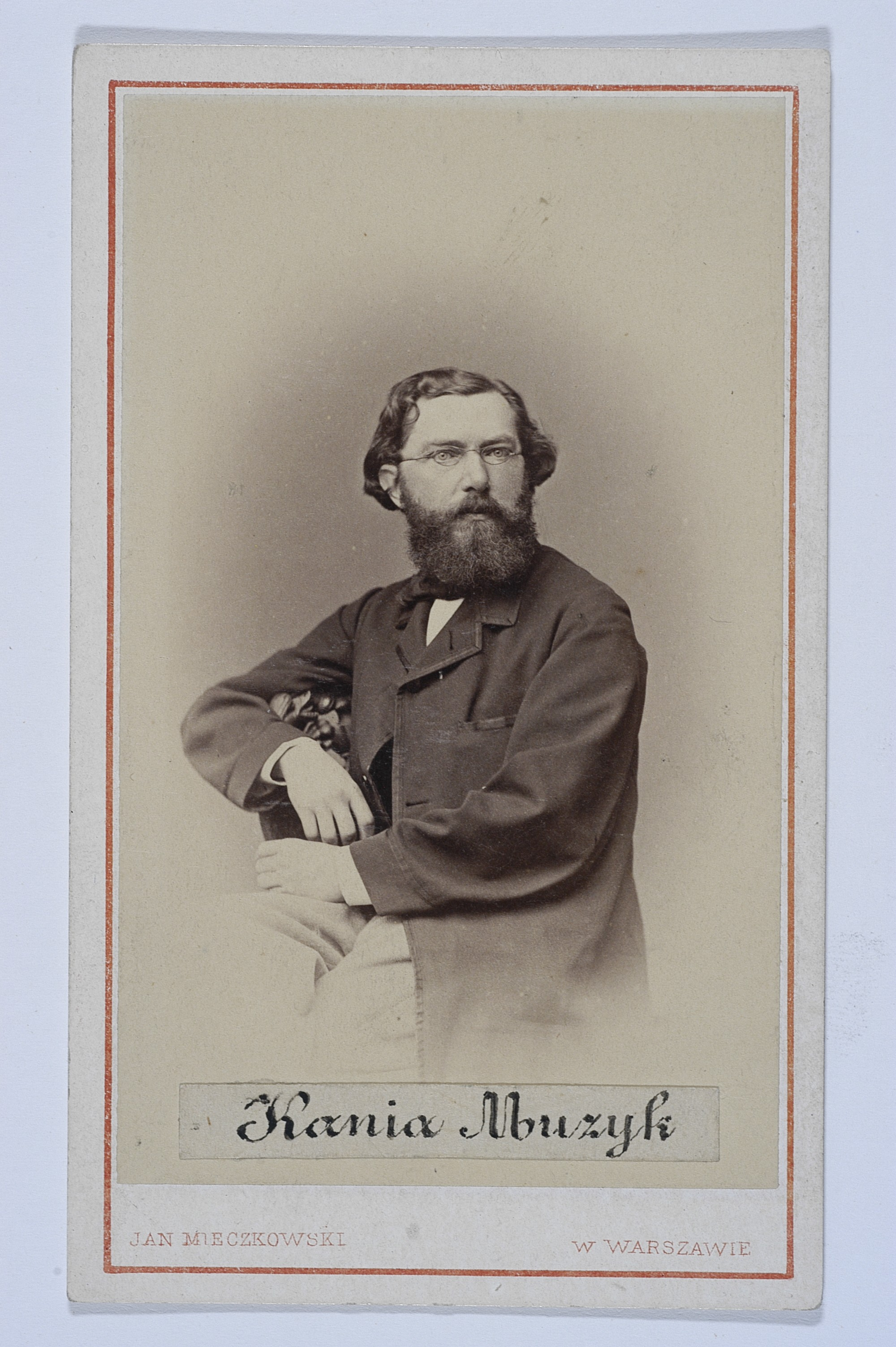 Emanuel Kania (1827—1887). Photo by Jan Mieczkowski, ca.1870